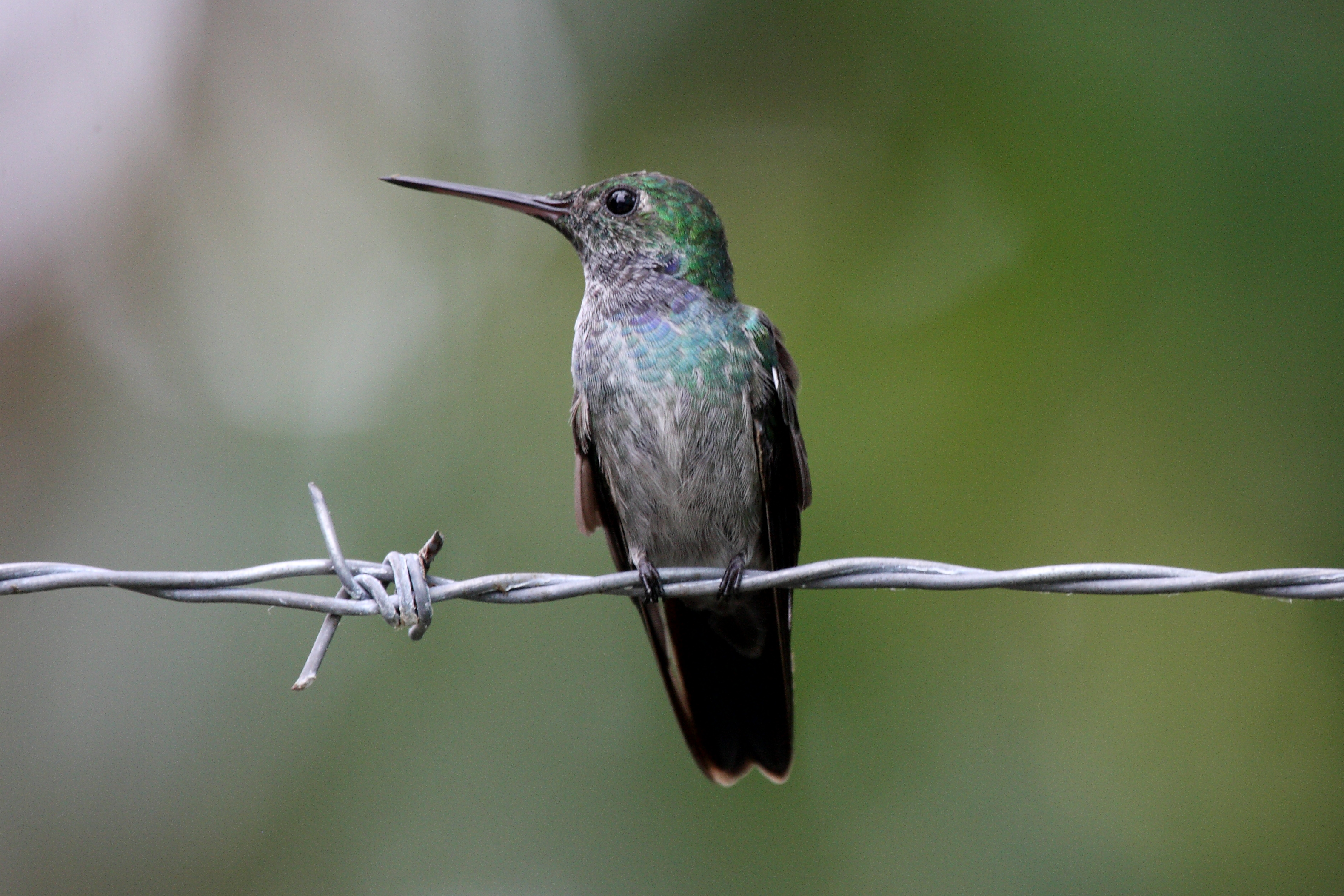 Blue-chested Hummingbird (Amazilia amabilis). Taken in Panama.